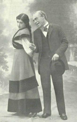 Salvador Mora y María Luisa Moneró en una escena de la obra de teatro Flor de los pazos, de Manuel Linares Rivas